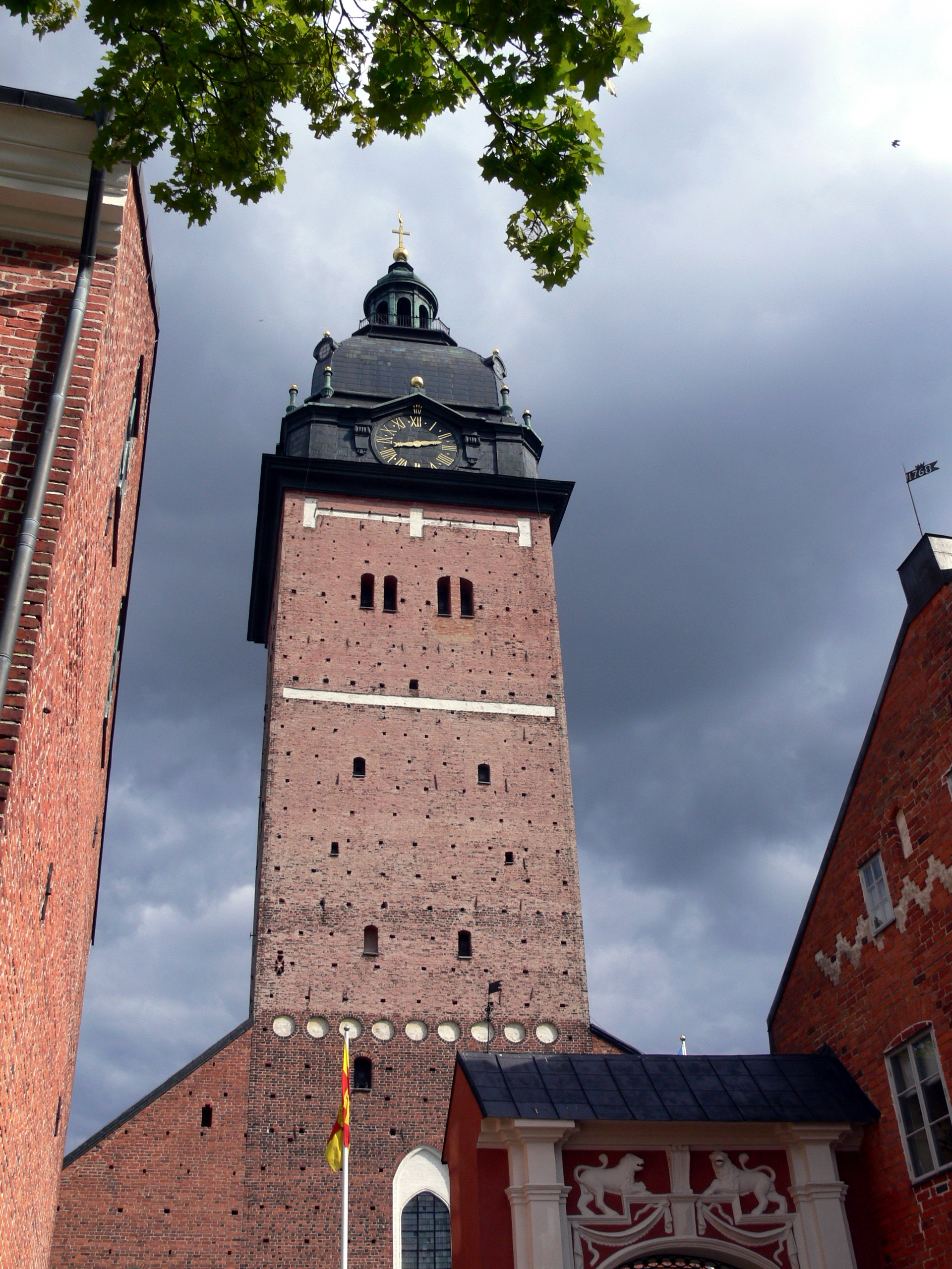 Strängnäs Cathedral ( Sweden ). Tower of the church.